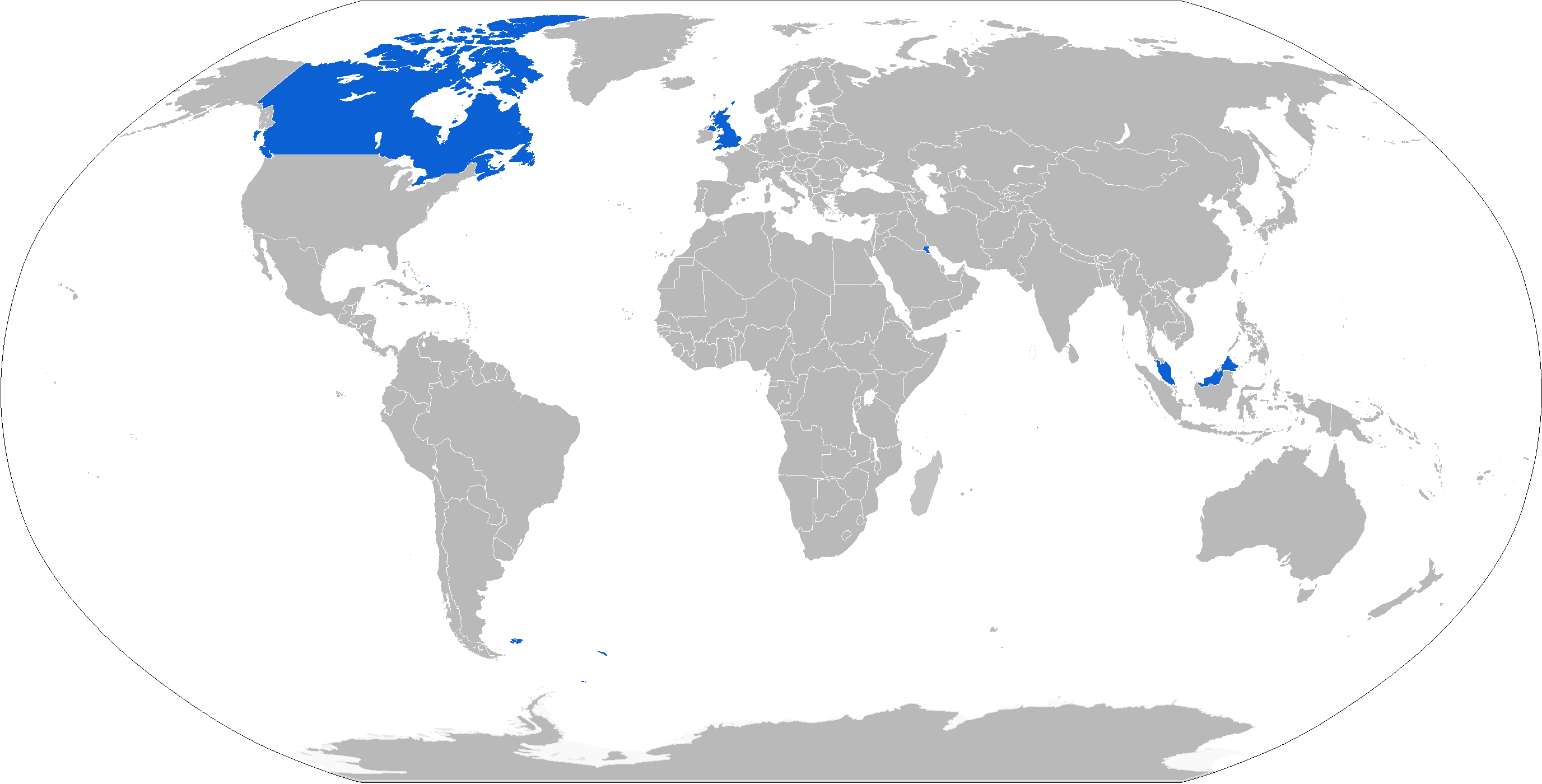 Map with Starburst operators in blue